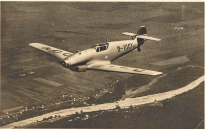 The third prototype of the Messerschmidt Bf109, V3 with markings D-IQOY (c/n 670), equipped with a Jumo 210 A motor. It was the first prototype equipped with armament, two MG17 machine guns. It served as archetype for the A -series. First flight June 1936.